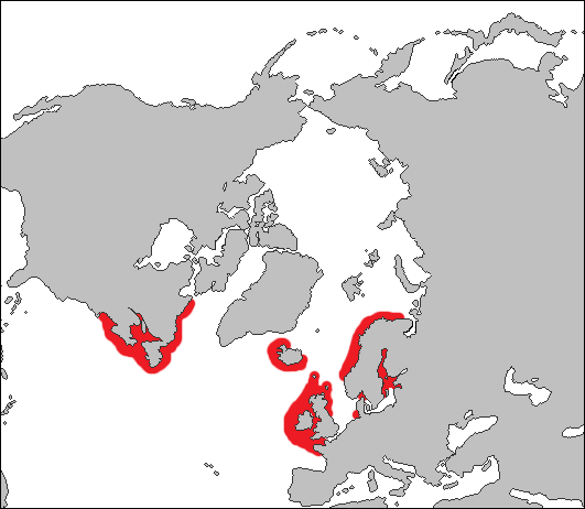 Distibution of Halichoerus grypus